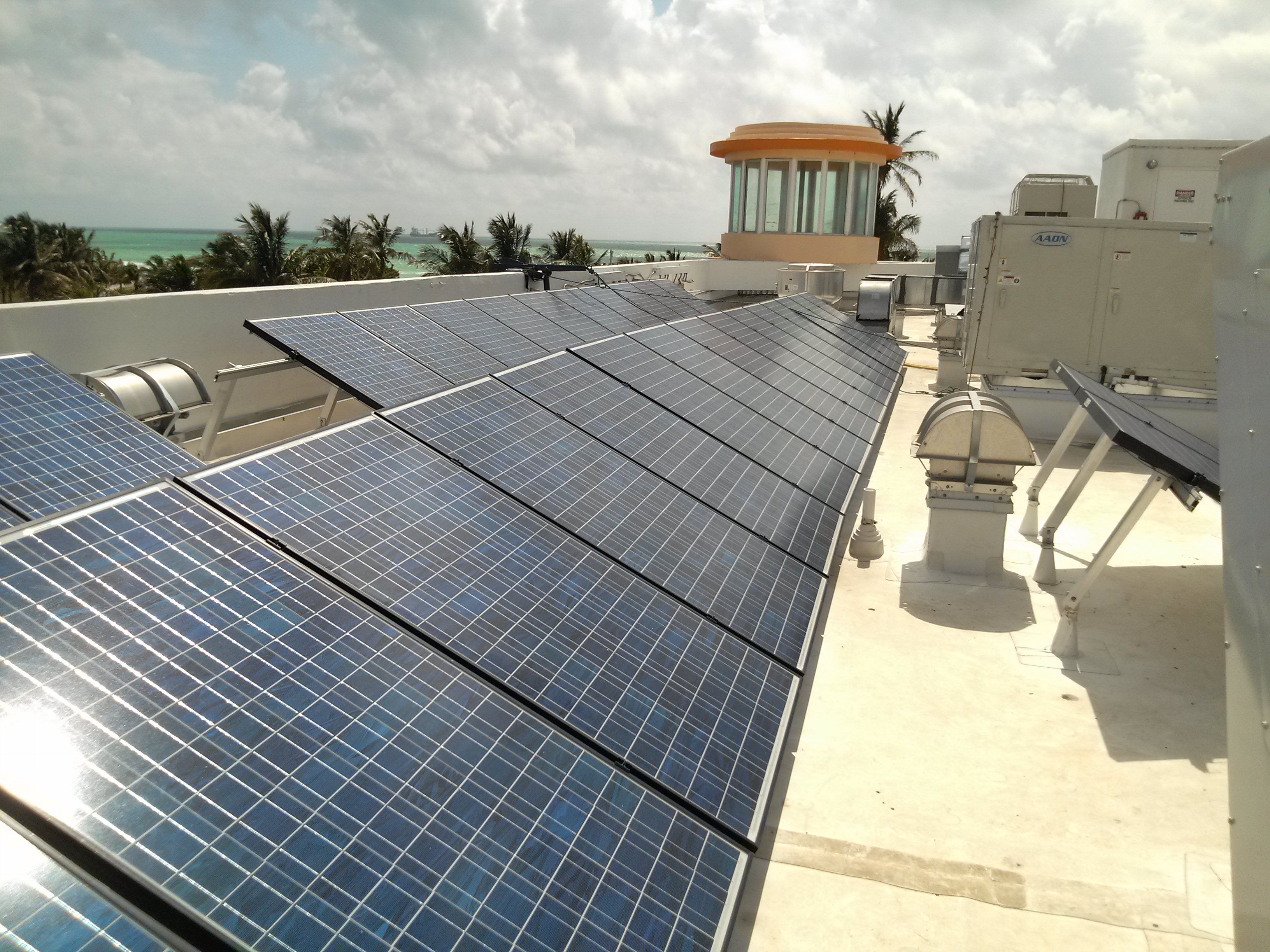 Facing south at quite high angle despite near-tropical location. Though more intense sun is in winter or dry season. Major cooling load would be in summer.